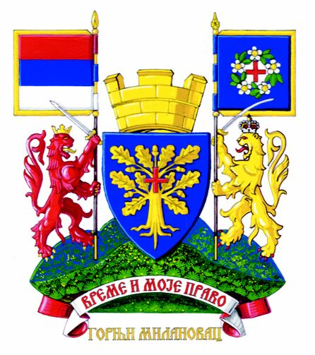 Coat of arms of Gornji Milanovac, Serbia (old version)